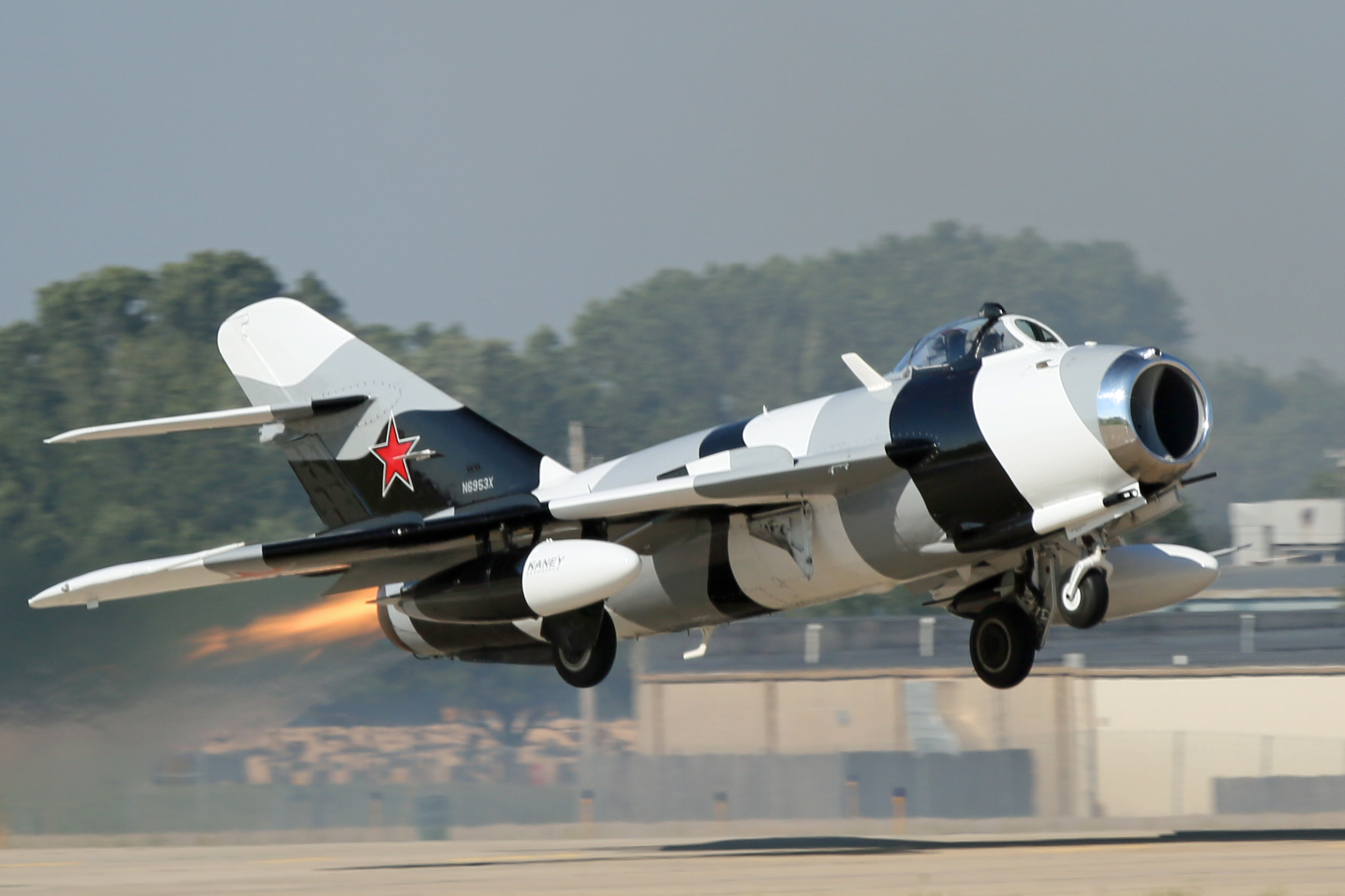 Mikoyan-Gurevich MiG-17